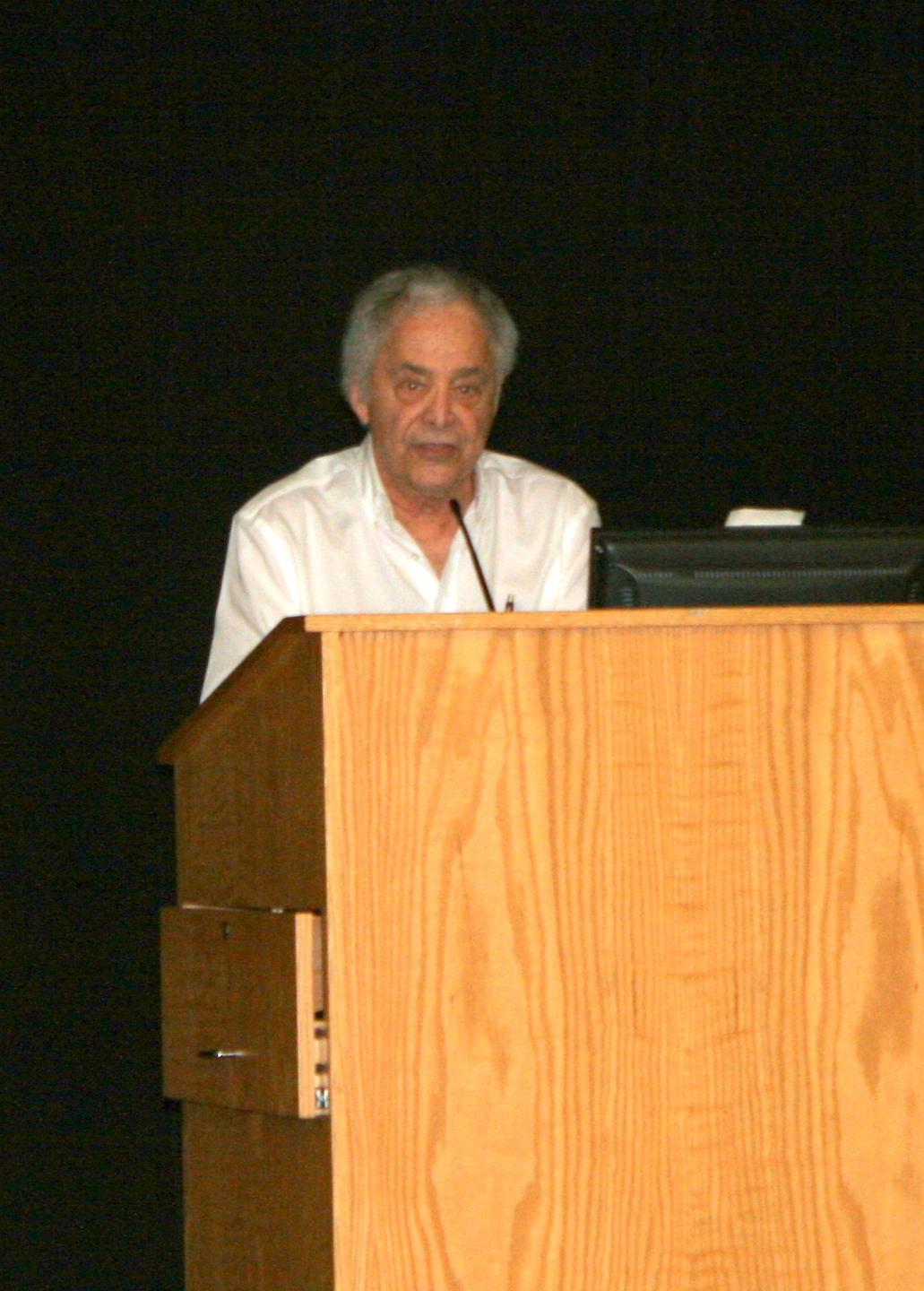 Game show creator and host of The Gong Show Chuck Barris at a Drexel Alumni event May 1, 2010